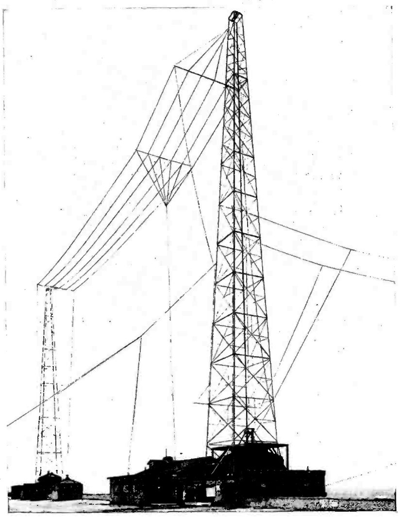 Multiwire T aerial of radio station WBZ in Springfield, Massachusetts, USA, in 1925. Licensed on September 15, 1921, it is claimed to be the first commercially licensed broadcast station in the US (although other stations like WWJ and KDKA had been broadcasting under other licenses for several years). Located at the Westinghouse plant in East Springfield, it broadcast on a wavelength of 360 meters (833 kHz) with a power of 2000 W. The antenna is typical of the wire antennas used for mediumwave broadcasting in the 1920s. The vertical wire connecting to the middle of the antenna is the radiating element, and the multiwire horizontal part is the capacitive "top load"; its function is to increase the oscillating currents in the vertical wire to increase the radiated power.